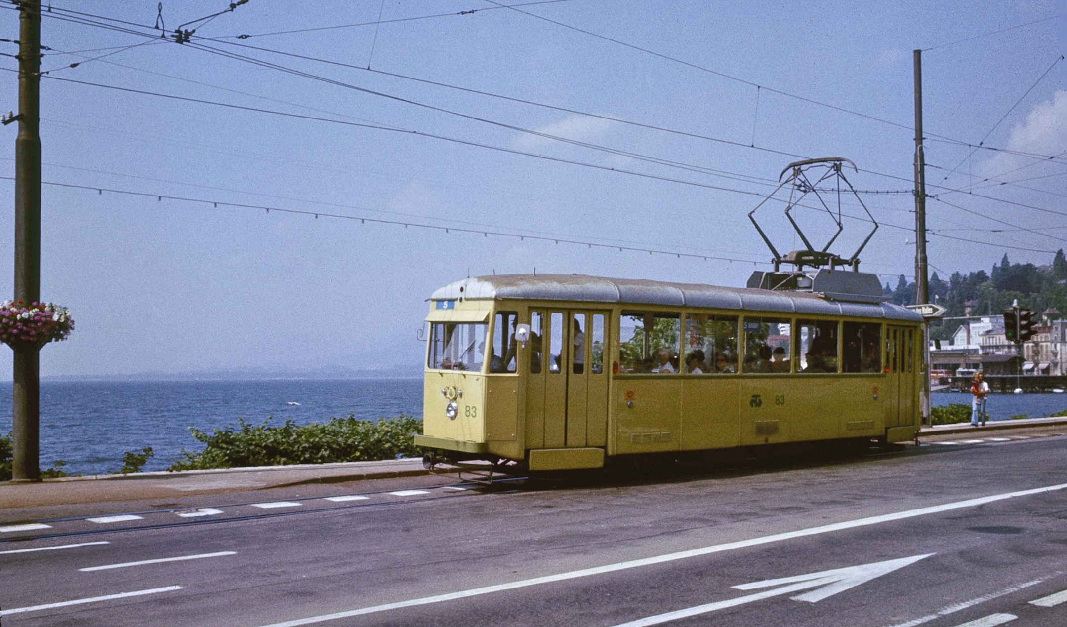 Neuchâtel tram 83 eastbound on Quai Philippe-Godet in 1979, approaching Place Pury terminus, near the end of a trip from Boudry on route 5. Lake Neuchâtel is in the background. Car 83 was one of three double-ended (bi-directional) "Swiss Standard" trams built for the Neuchâtel tram system in 1947 by SIG, numbered 81–83 (renumbered 581–583 in 1980). Car 583 (ex-83) has been preserved by the Association Neuchâteloise des Amis du Tramway (ANAT).